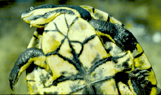 Myuchelys purvisi wildcaught during 1996 study on Neural Bones